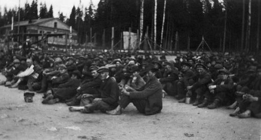 Red Guard prisoners during 1918 Finnish Civil War. Tammisaari prison camp, Ekenäs, Finland.